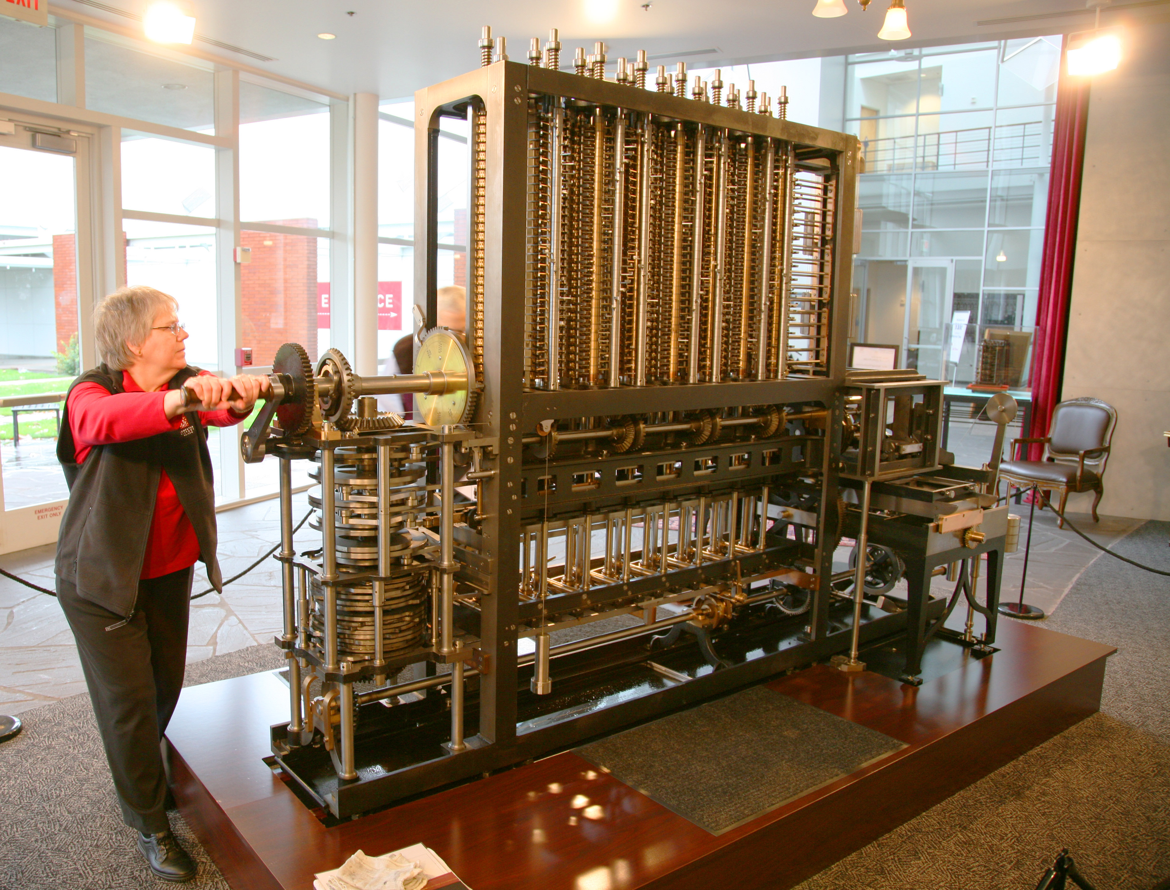 Let the computing begin!